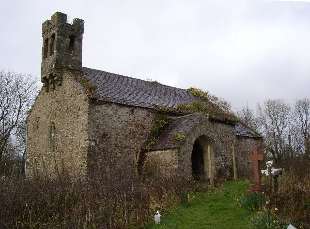 Yerbeston Church. One of the many churches that are now surplus to requirements. This one, with its amusing little tower, had a planning notice at the gate for conversion to a house.